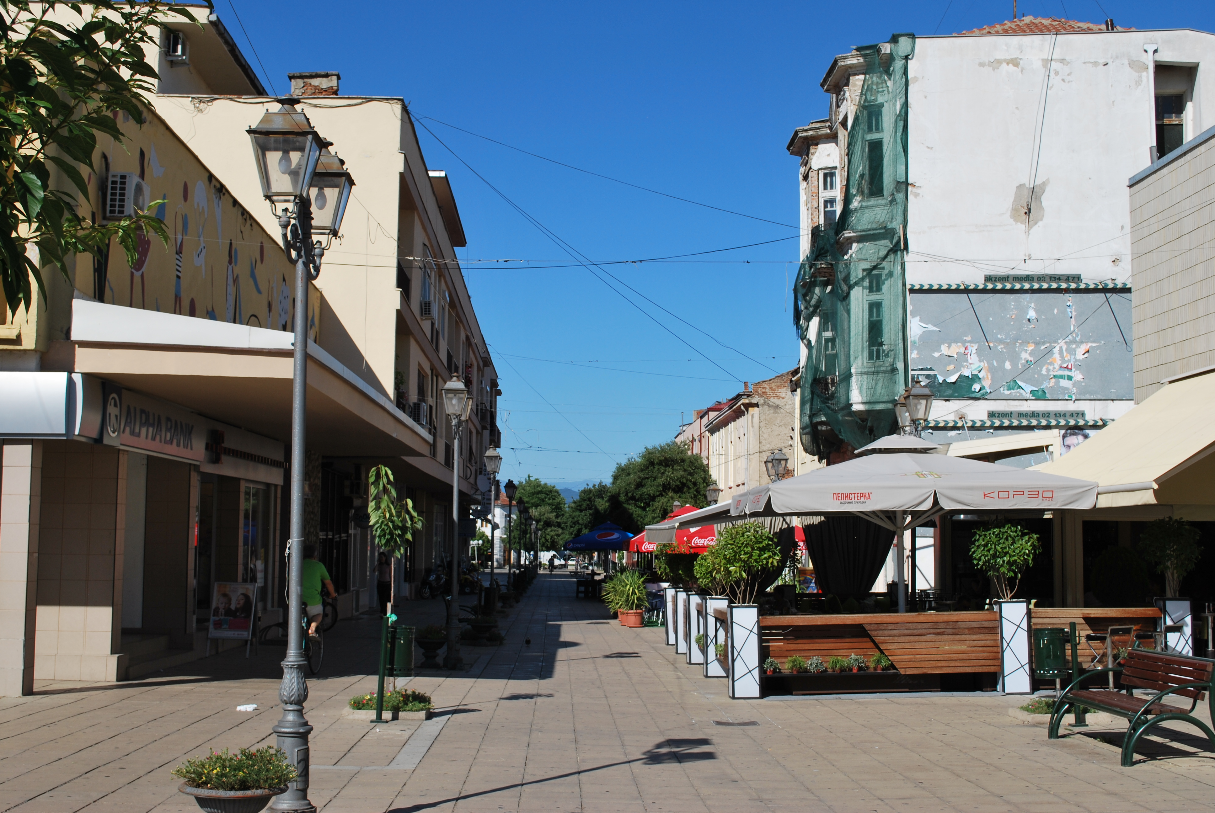 Gevgelija, Macedonia